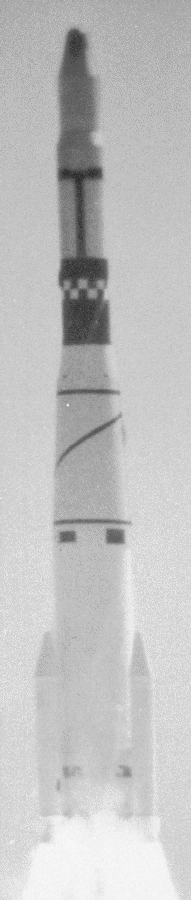 Launch of Thor SLV-2A Agena D rocket with spy-satellite Corona 82